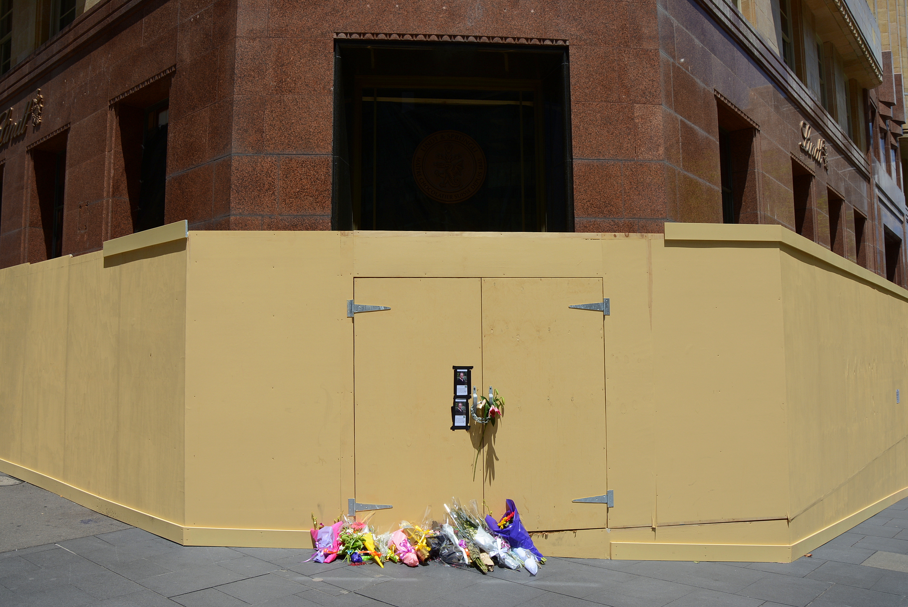 Lindt Café, Martin Place, Sydney